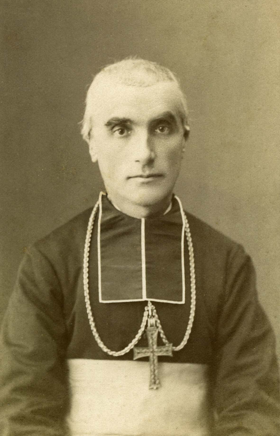 Mgr Perraud, bishop of Autun (France)